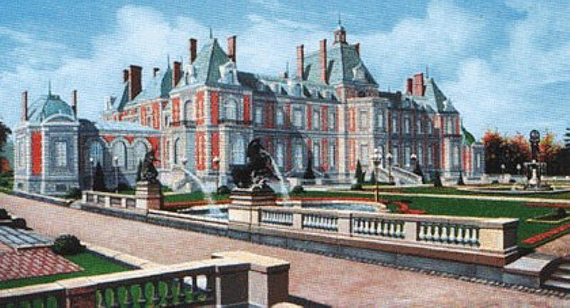 Park-view of the New Palace in Świerklaniec. He was the most important part of the three palaces there of the Donnersmarck family. In 1945 he burned down and was pulled down in 1961.